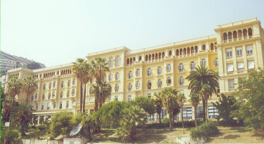 Lycee Parc Imperial - Nice - France This photo was taken from the stadium